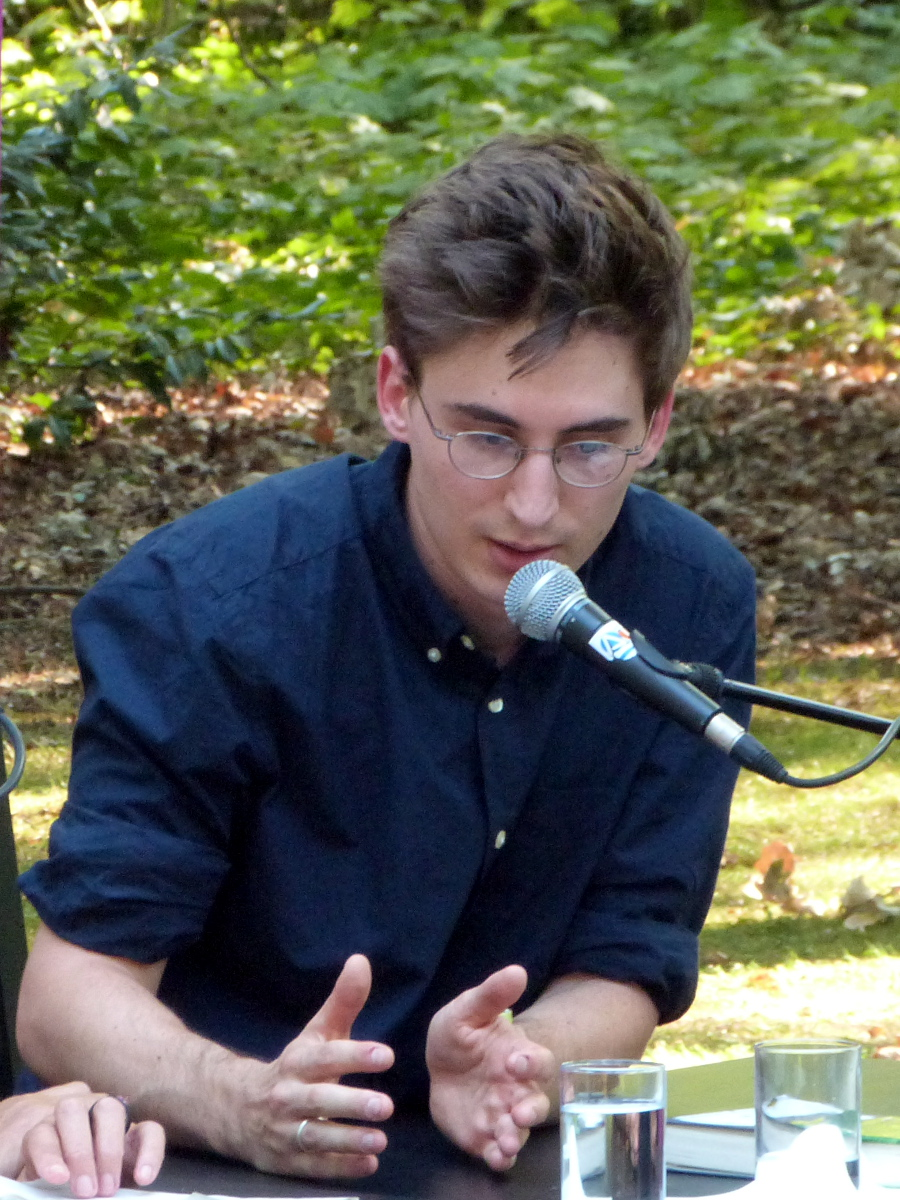 German writer Juan S. Guse during an interview at the Erlanger Poetenfest 2015